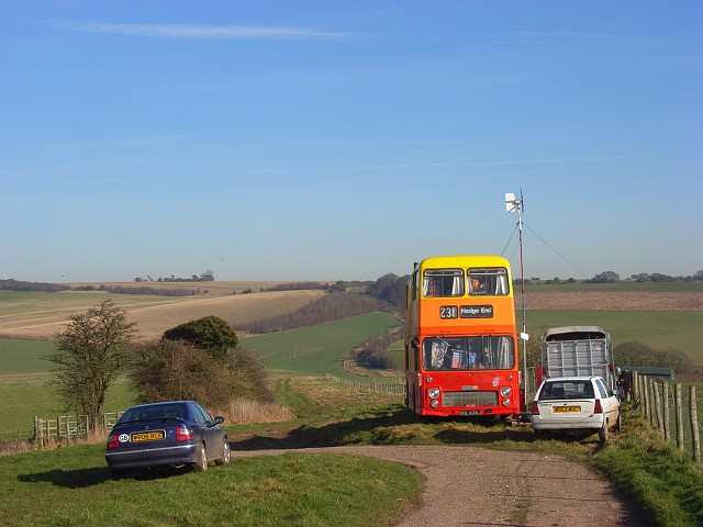 View northwest along a byway near Stancombe Farm, Lambourn, Berkshire. The bus is a Bristol VR with number and destination blinds for route 231 to Hedge End in Hampshire. Next to it is a small wind turbine mounted on a mast. The bus is parked more or less on the boundary with what is now Oxfordshire. Branching off to the left is the drive to Stancombe Farm. Behind the bus a byway continues into the Oxfordshire parish of Letcombe Bassett.